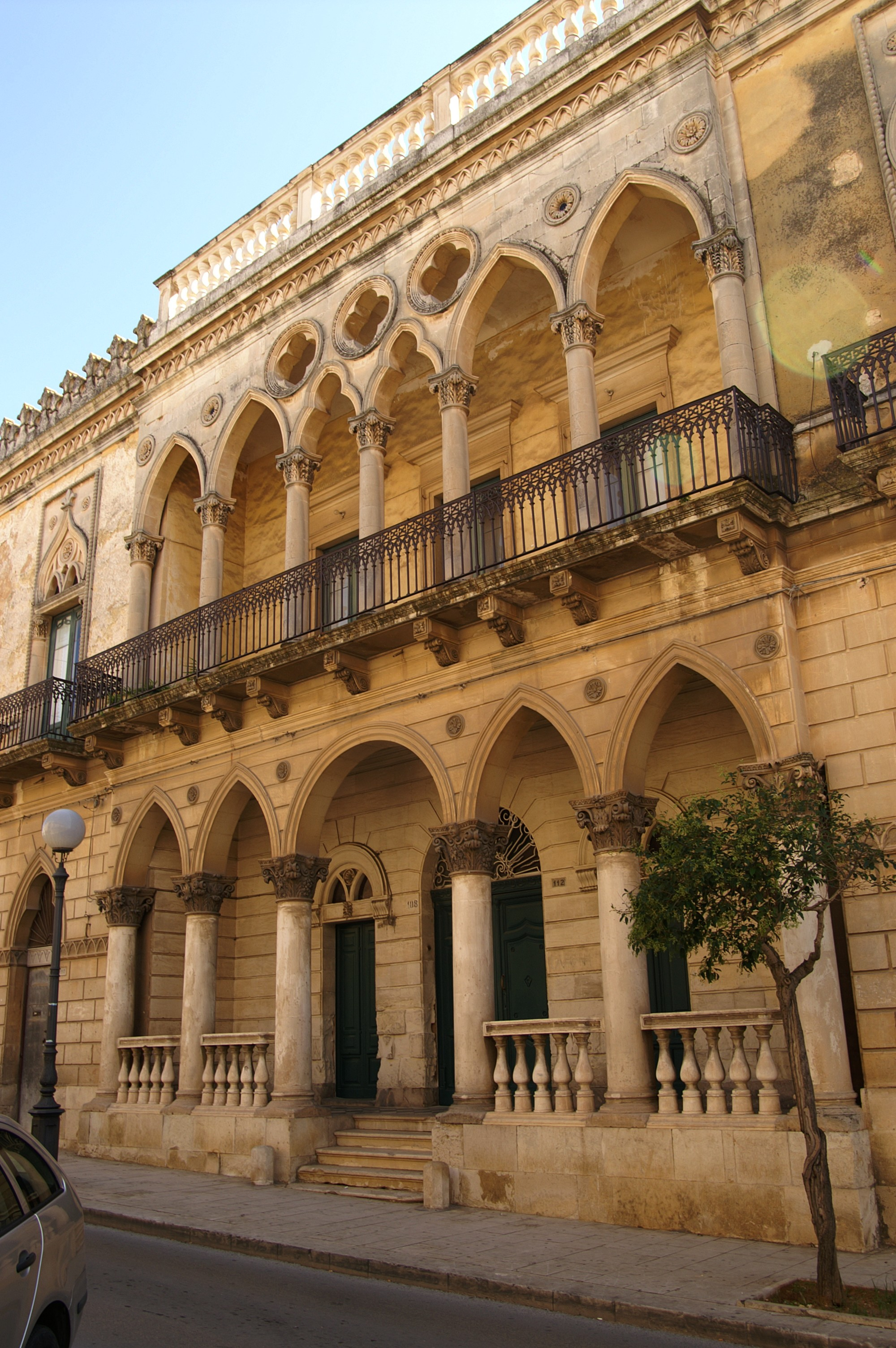 Vittoria: Palazzo